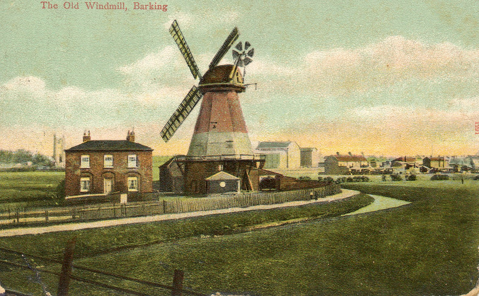 Wellington Mill, Barking. Postcard postally used 21 September 1907